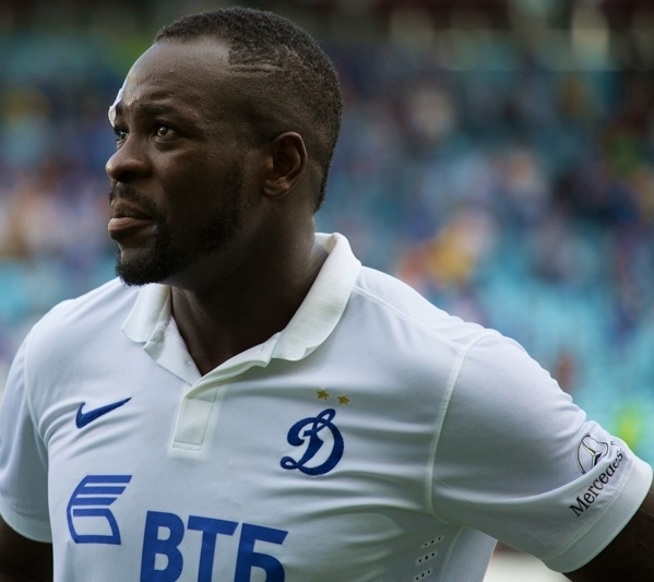 Christopher Samba